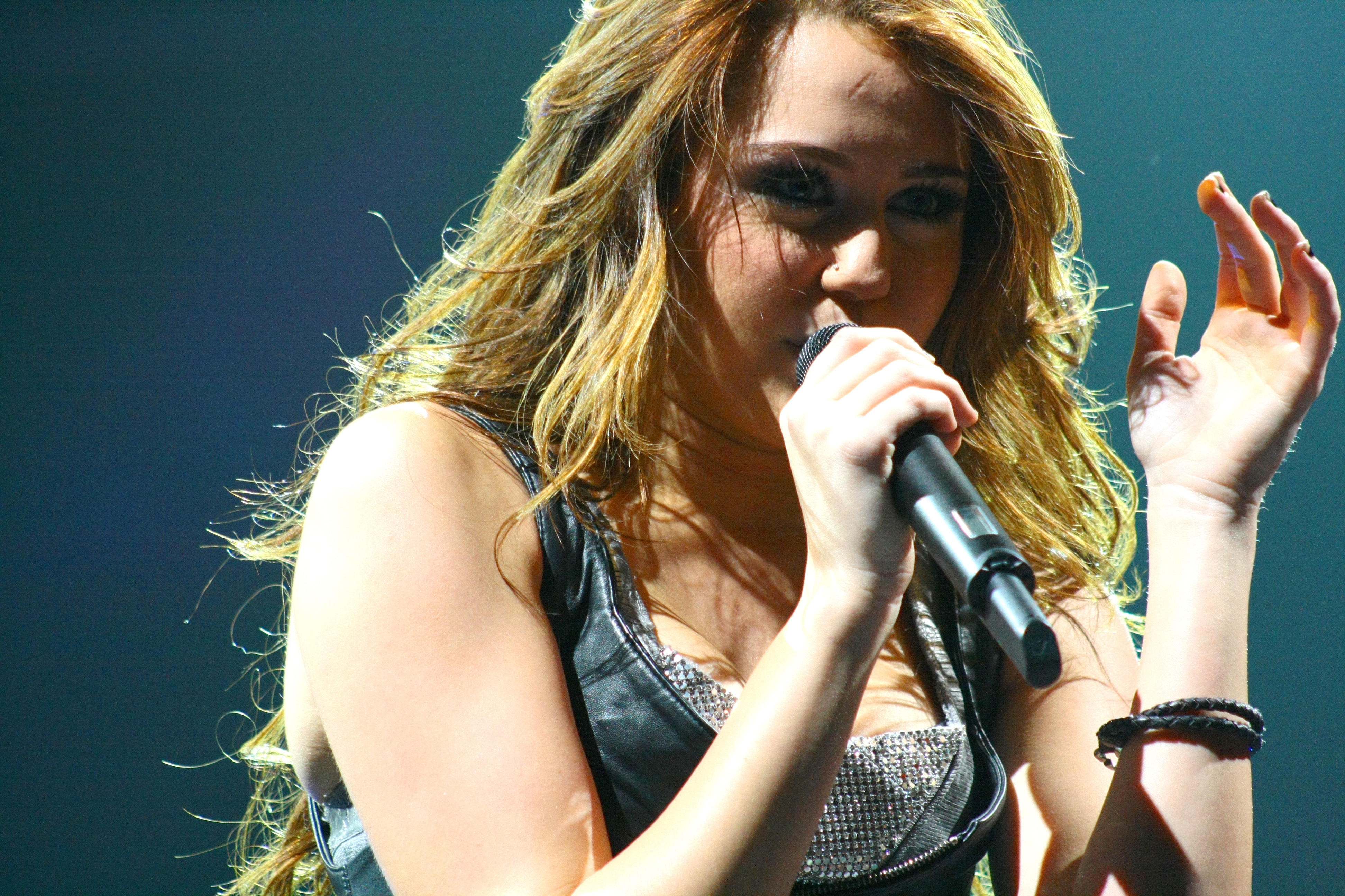 Miley Cyrus, a brunette teenager, sings "Start All Over" with a microphone close to her in a concert that is part of her Wonder World Tour in Auburn Hills.